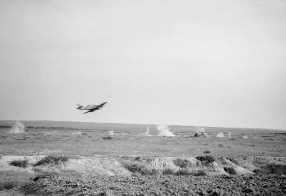 Royal Air Force Operations in the Middle East and North Africa, 1939-1943. A Hawker Hurricane Mark IID of No. 6 Squadron RAF gives a demonstration of the firepower of its Vickers 40mm Type S anti-tank guns against derelict German tanks in the North African desert.